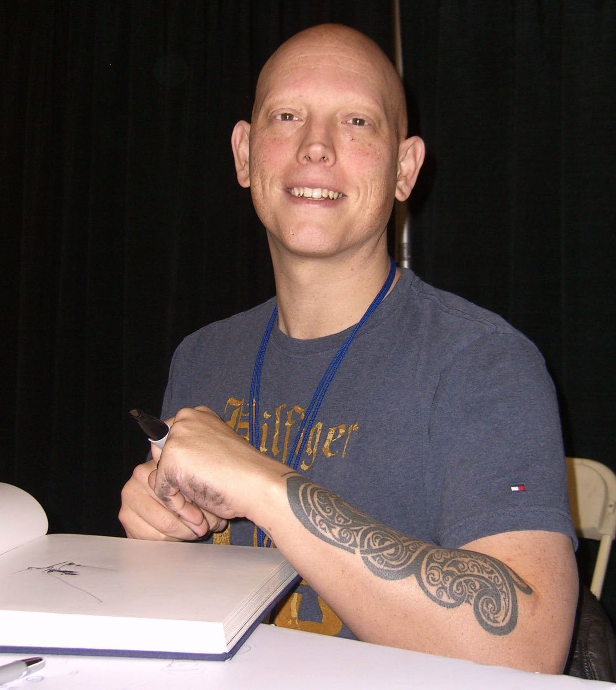 Comic book creator David Finch, at the New York Comic Convention in Manhattan, October 10, 2010. This photo was created by Luigi Novi. It is not in the public domain, and use of this file outside of the licensing terms is a copyright violation.